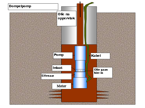 Illustrated working of an electrical submersible pump.